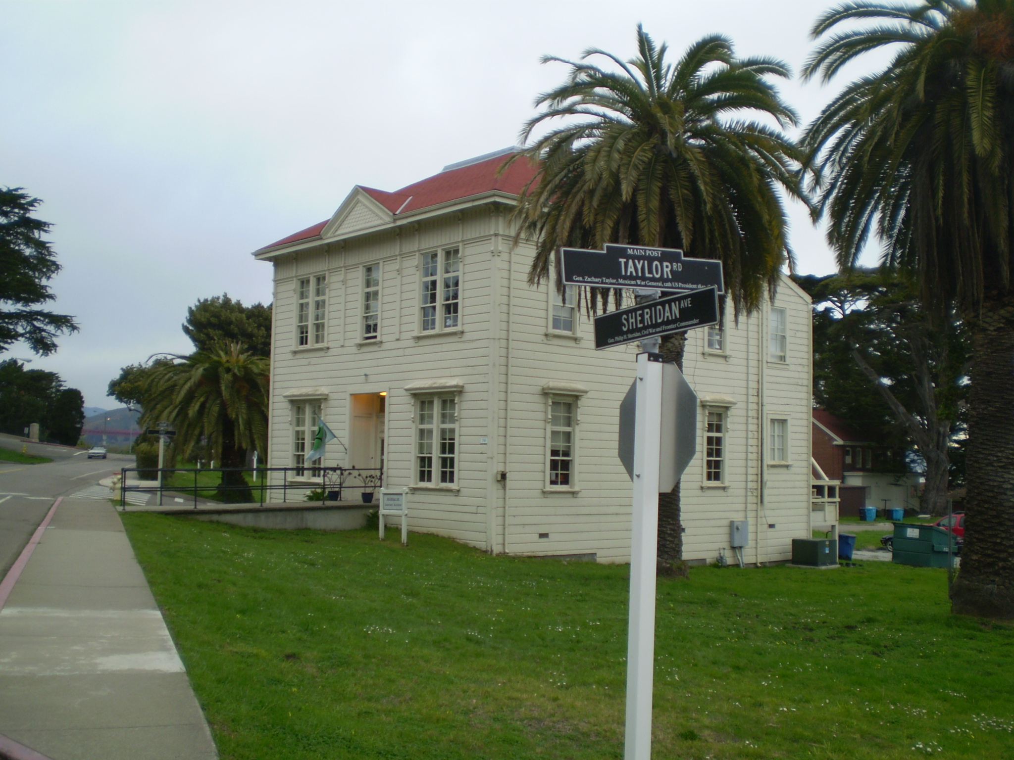 Exterior view of the Internet Archive headquarters, taken on the day of the San Francisco Wikimedia Meetup.